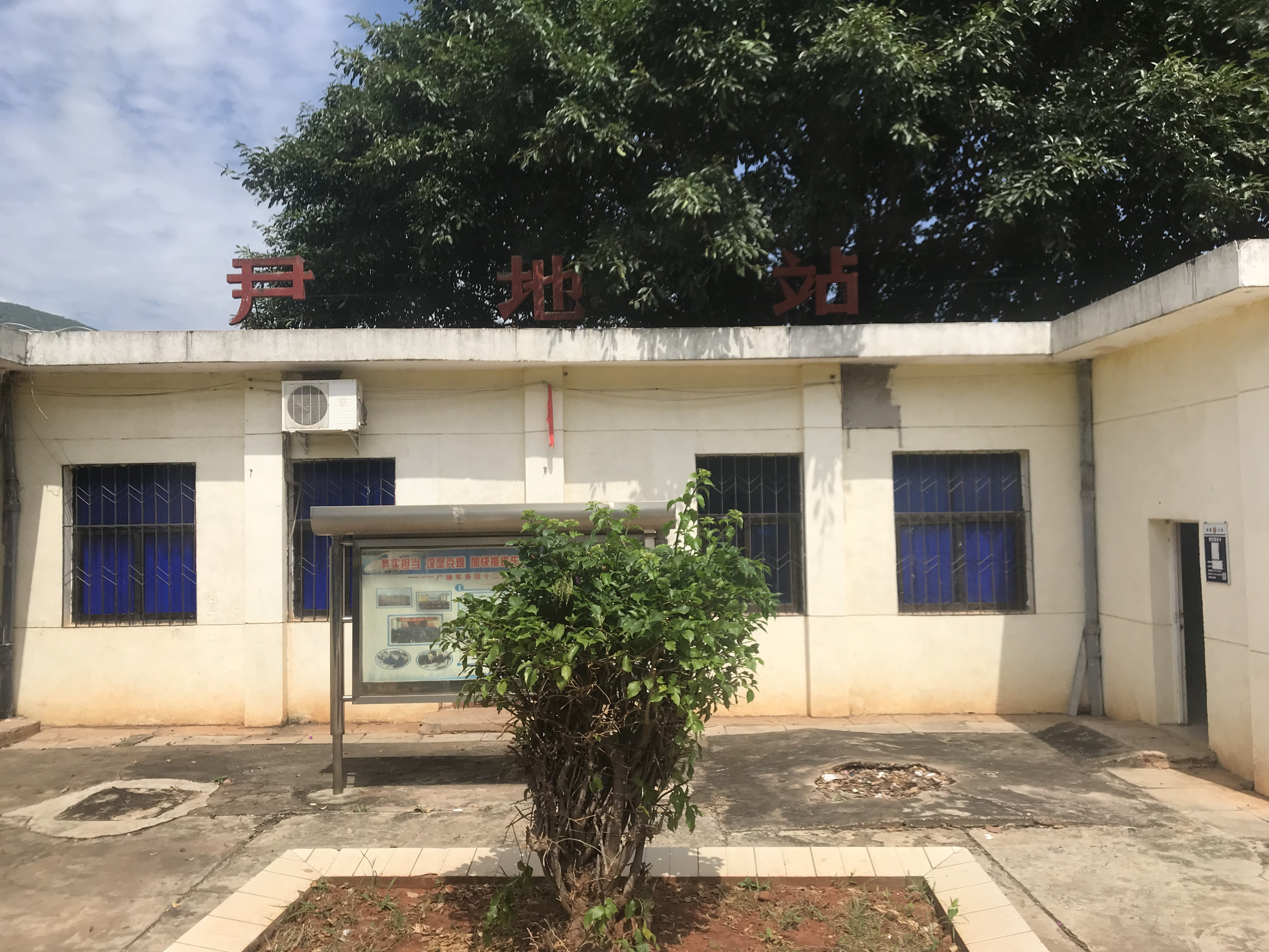 201908 Station Building of Yindi